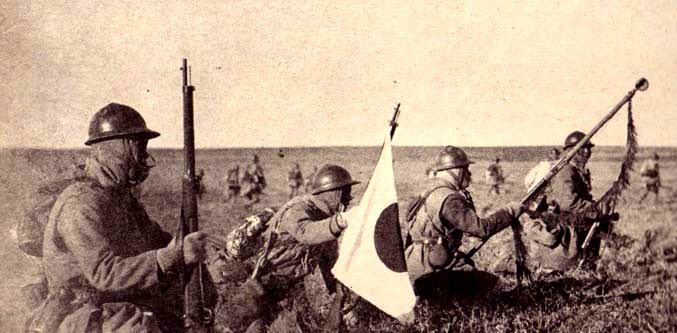 Japanese infantry advances in Manchuria after Mukden Incident